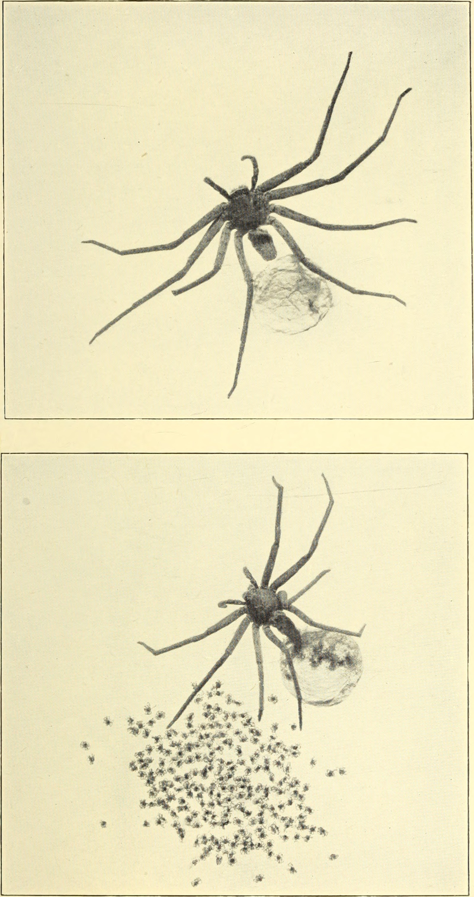 Title: The biology of spiders Year: 1928 (1920s) Authors: Savory, Theodore Horace, 1896- Subjects: Spiders; Insects Publisher: London : Sidgwick & Jackson Text Appearing Before Image: PLATE VIII Text Appearing After Image: Banana Spider (Heteropoda venatoria) with Eggs and Young. To face p. 222.) (E. A. Robins, photo.